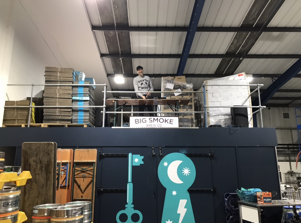 Music being played at The Big Smoke Brew Co, Lower Green Esher